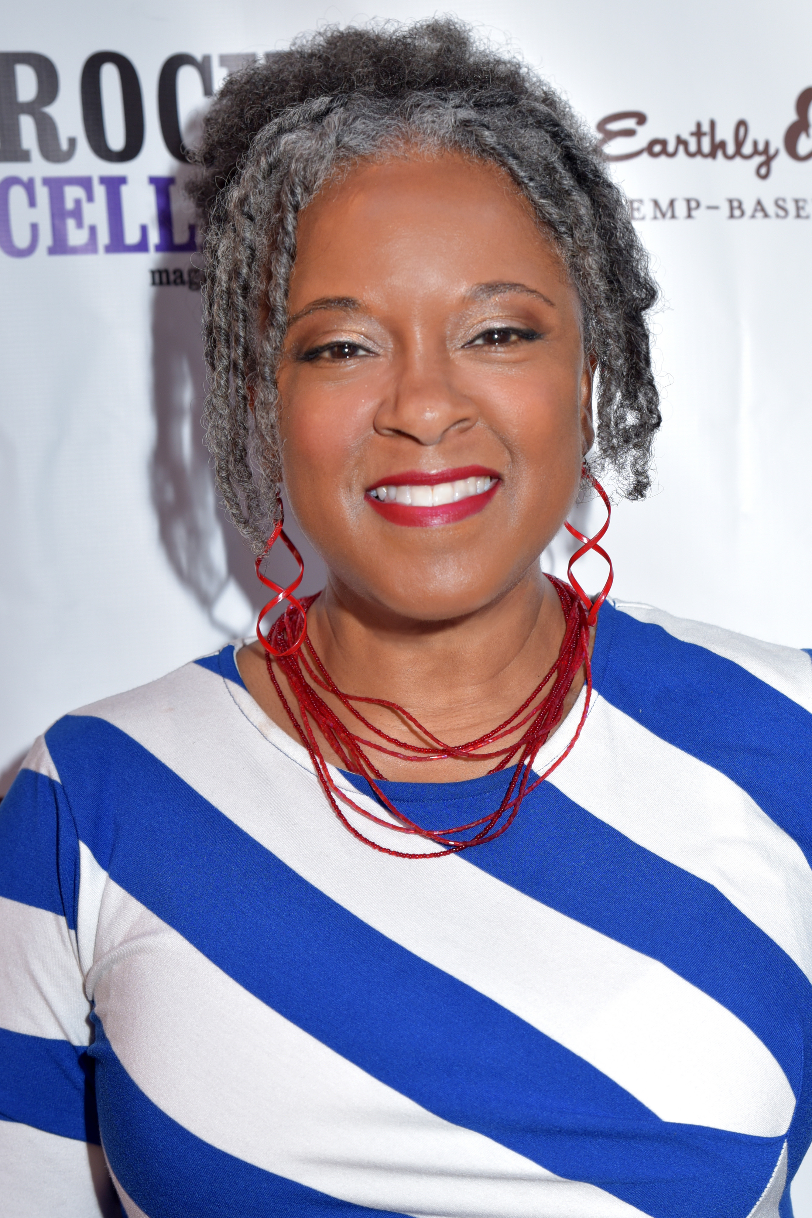 T'Keyah Crystal Keymáh arrives for the California Saga 2 Charity Concert at the Theatre at the Ace Hotel on July 03, 2019 in Los Angeles California - Photo by Glenn Francis of